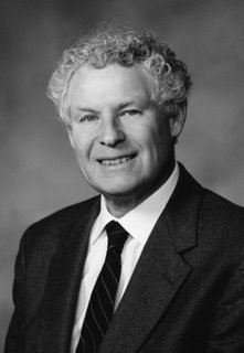 Richard A Snelling